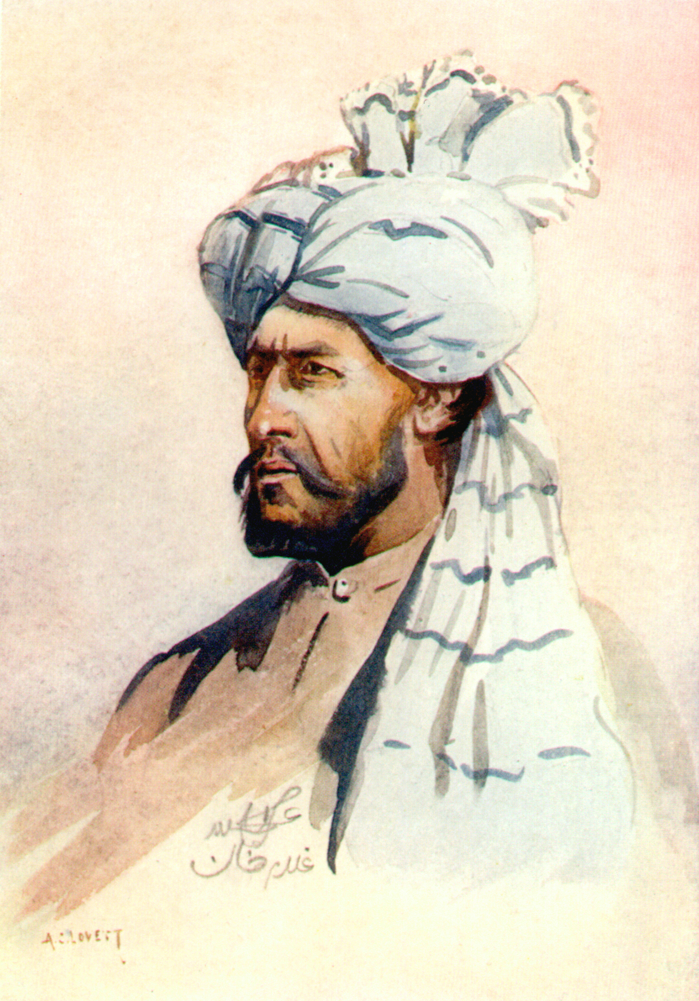 Kurram Militia. Watercolour by Major Alfred Crowdy Lovett, 1910. Published in MacMunn & Lovett, Armies of India, 1911